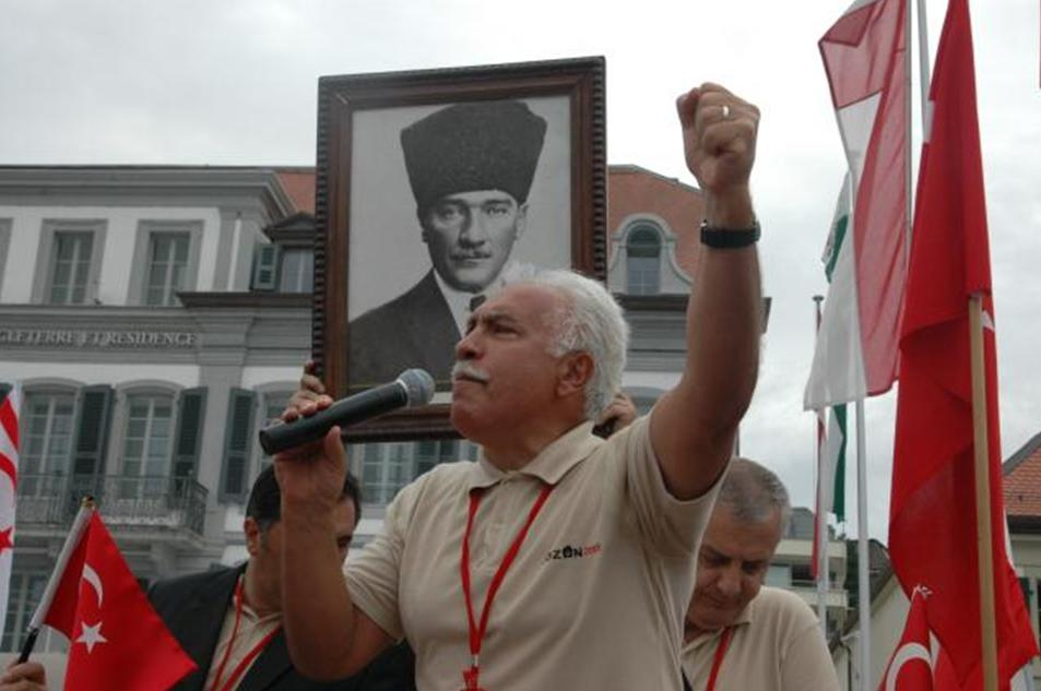 Doğu Perinçek in Switzerland for Lausanne Agreement anniversary acticity.